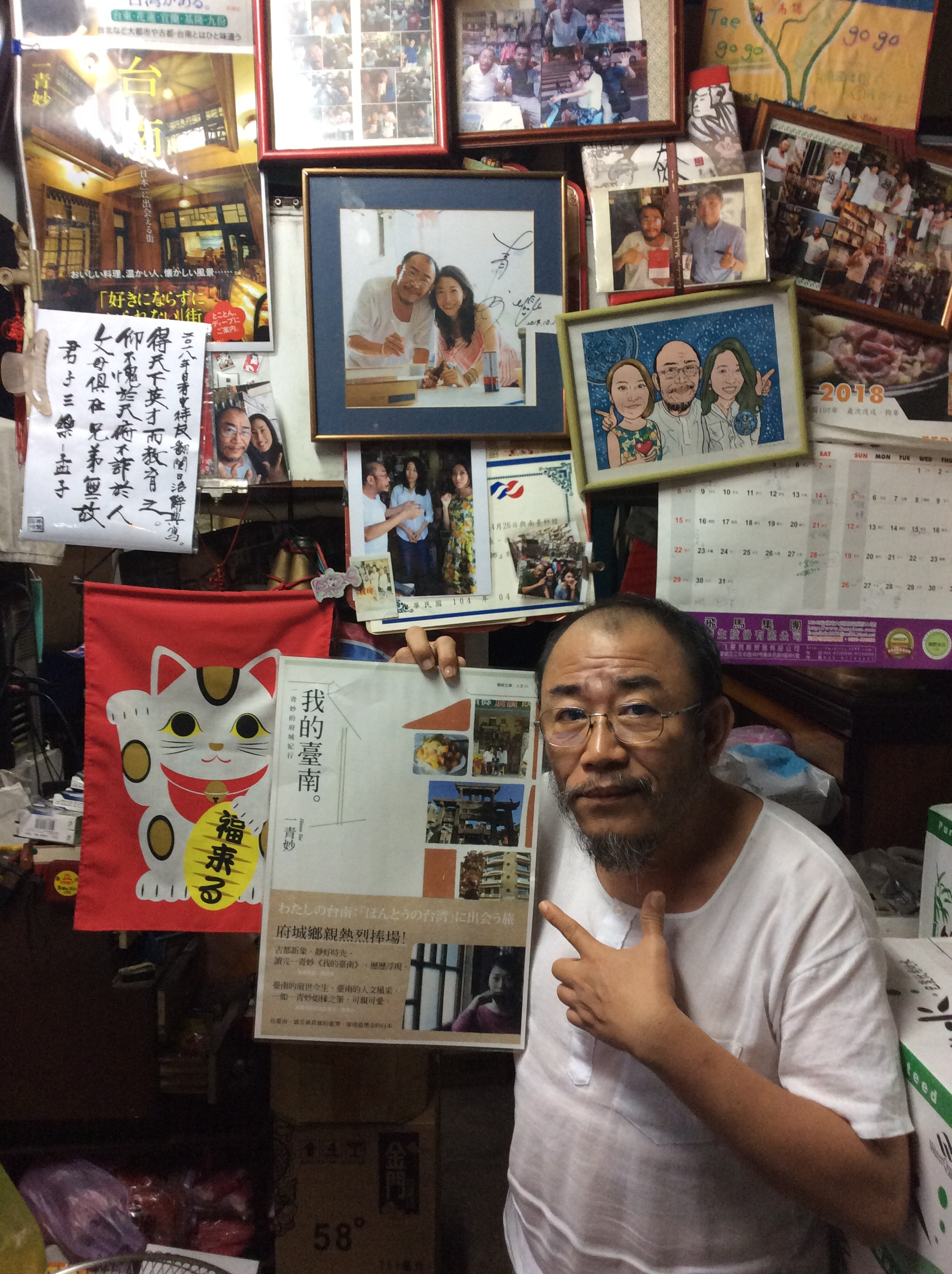 Maruyang